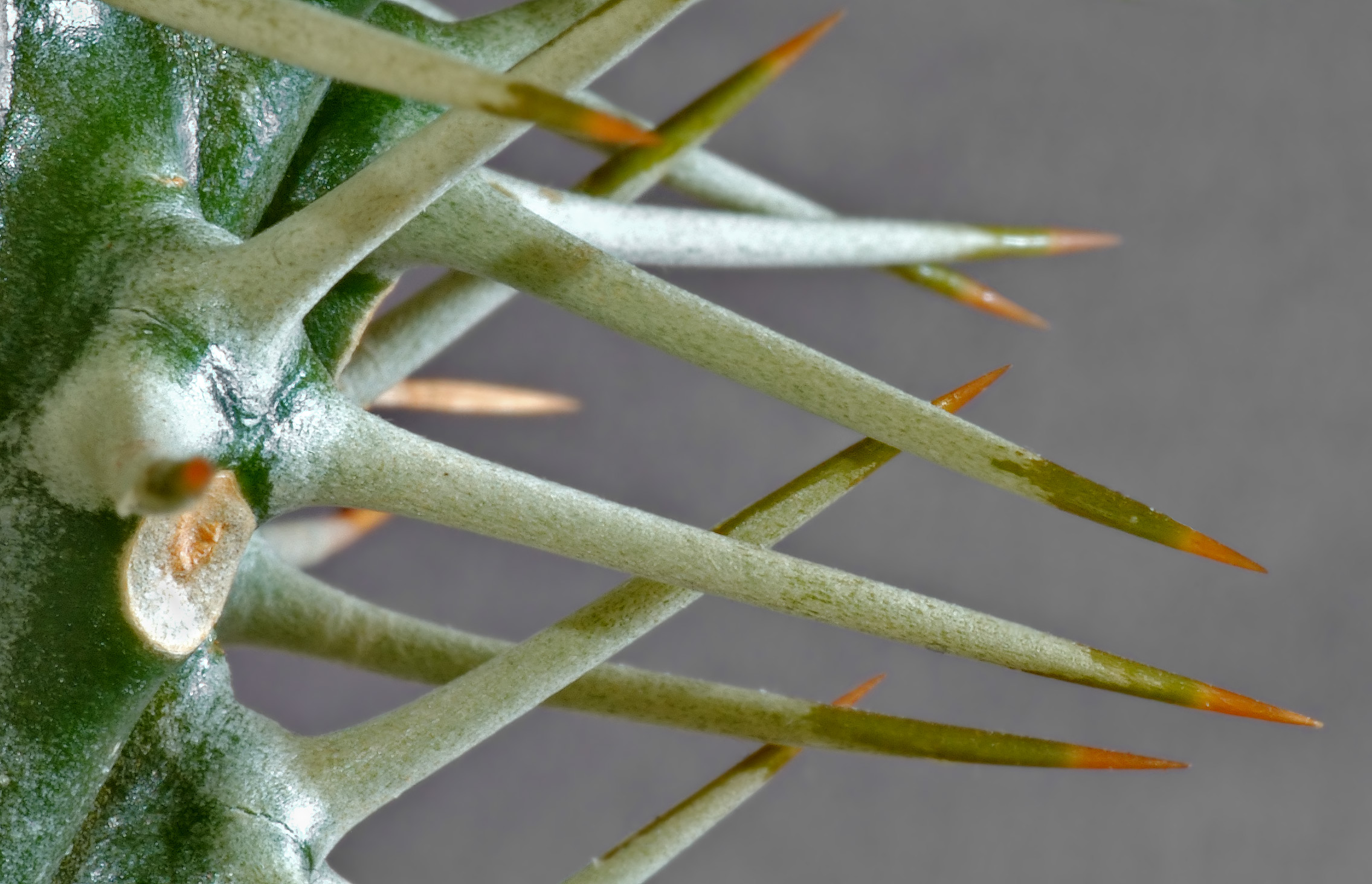 This image shows a macro photo of a few Pachypodium lamerei spines.